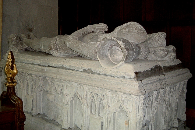 St Peter's parish church, Berkhamsted, Hertfordshire: panelled chest tomb of a knight and his lady, probably late 14th-century. It is against the south wall of the church. There was an inscription but it is now lost. This monument was once thought to represent members of the Incent family or the Torrington family but it is now thought to be the tomb of Henry of Berkhamsted, constable to the Black Prince at Berkhamsted Castle.